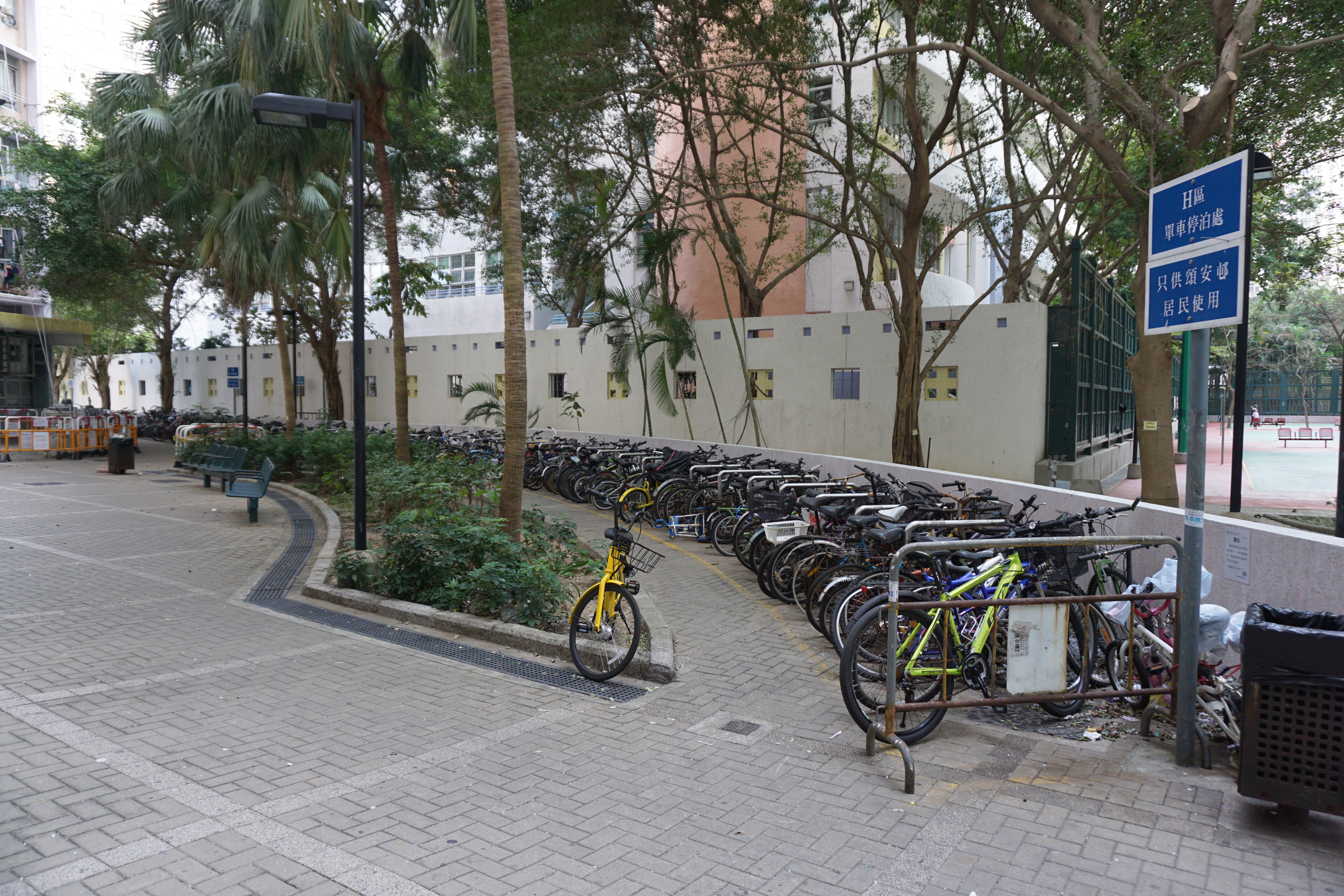 Chung On Estate in Ma On Shan, Hong Kong.